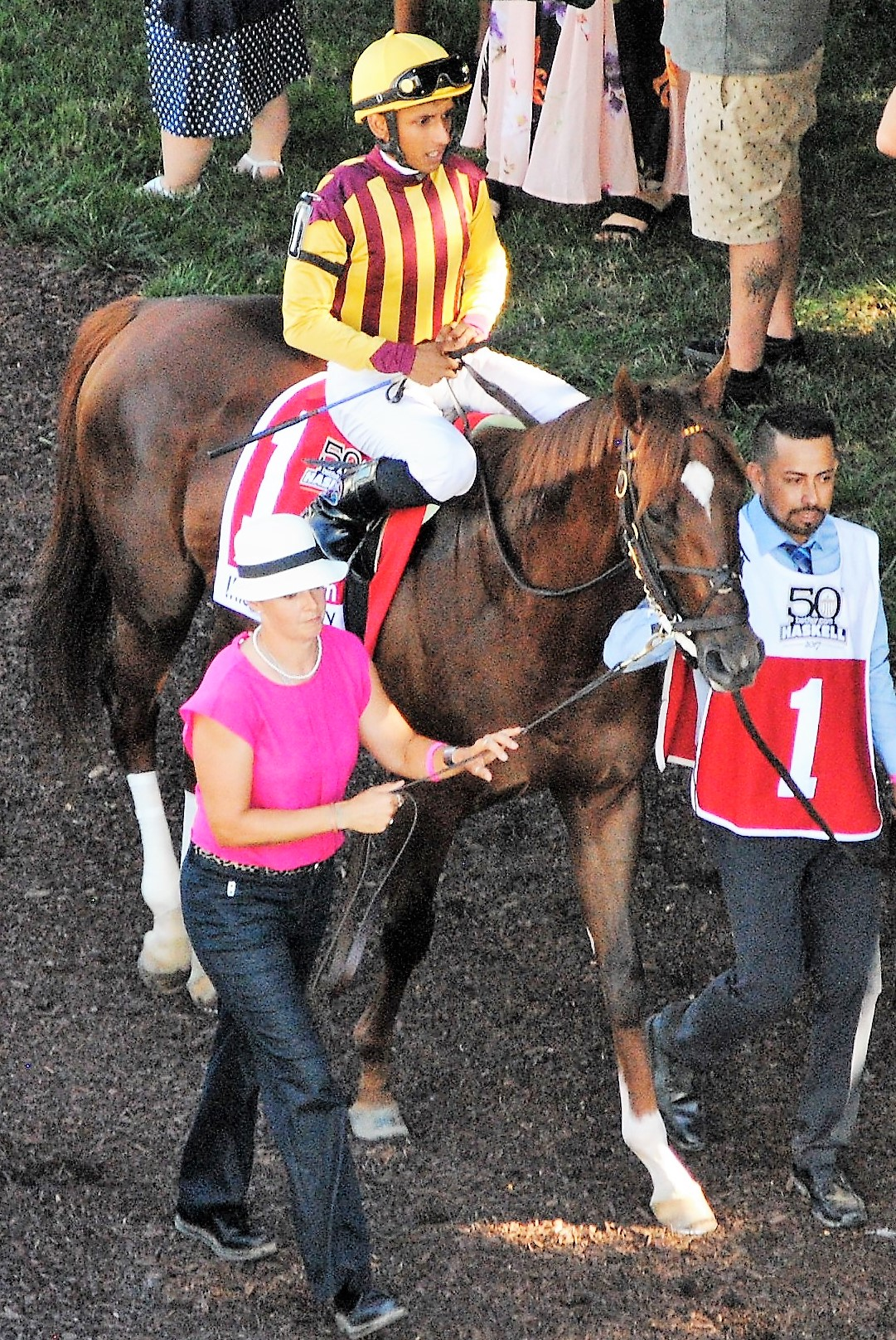 Irish War Cry in the walking ring with Jockey Rajiv Maragh before the 2017 Haskell Invitational at Monmouth Park